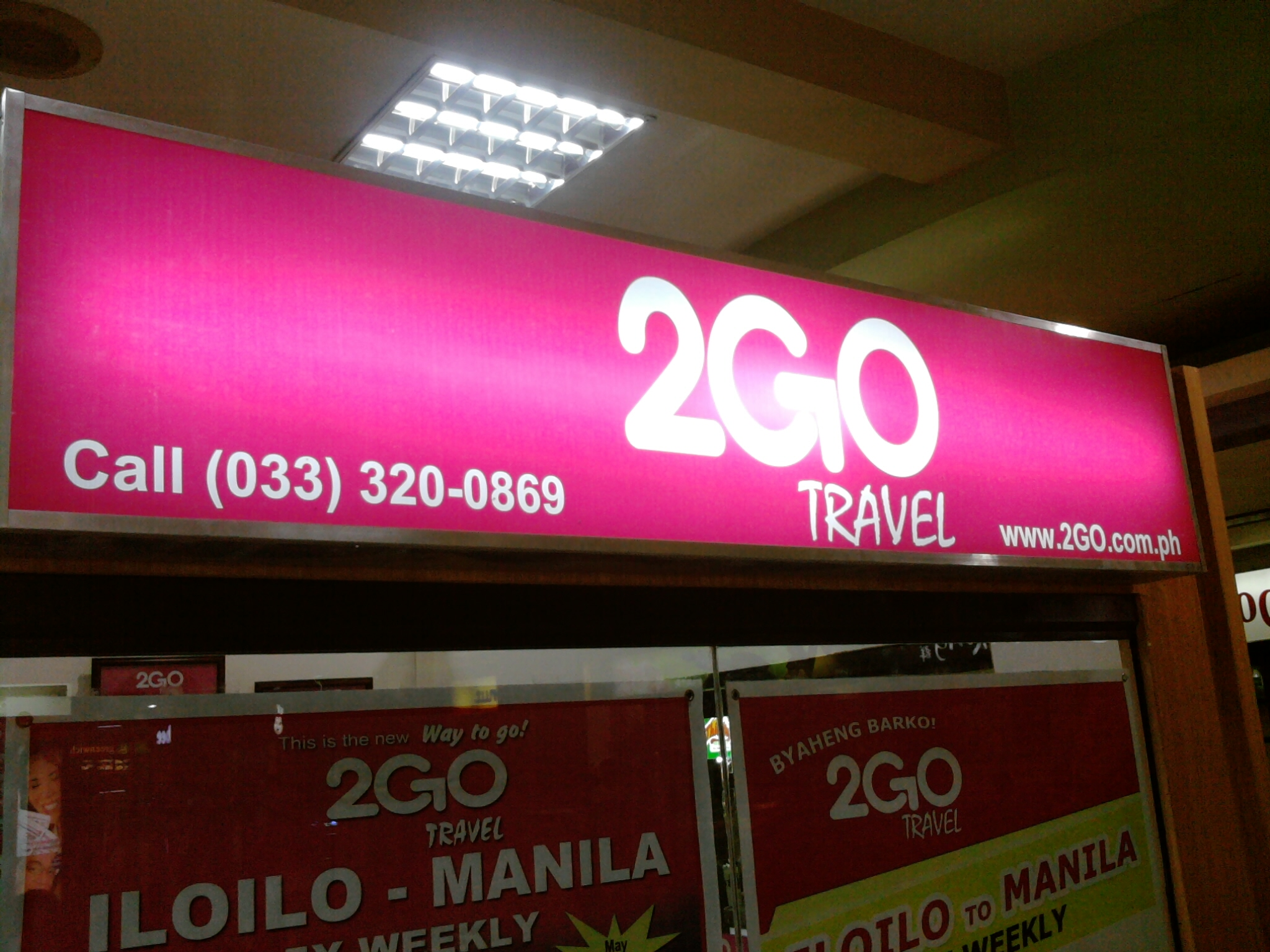 2GO Travel kiosk in Gaisano City Mall, La Paz, Iloilo City